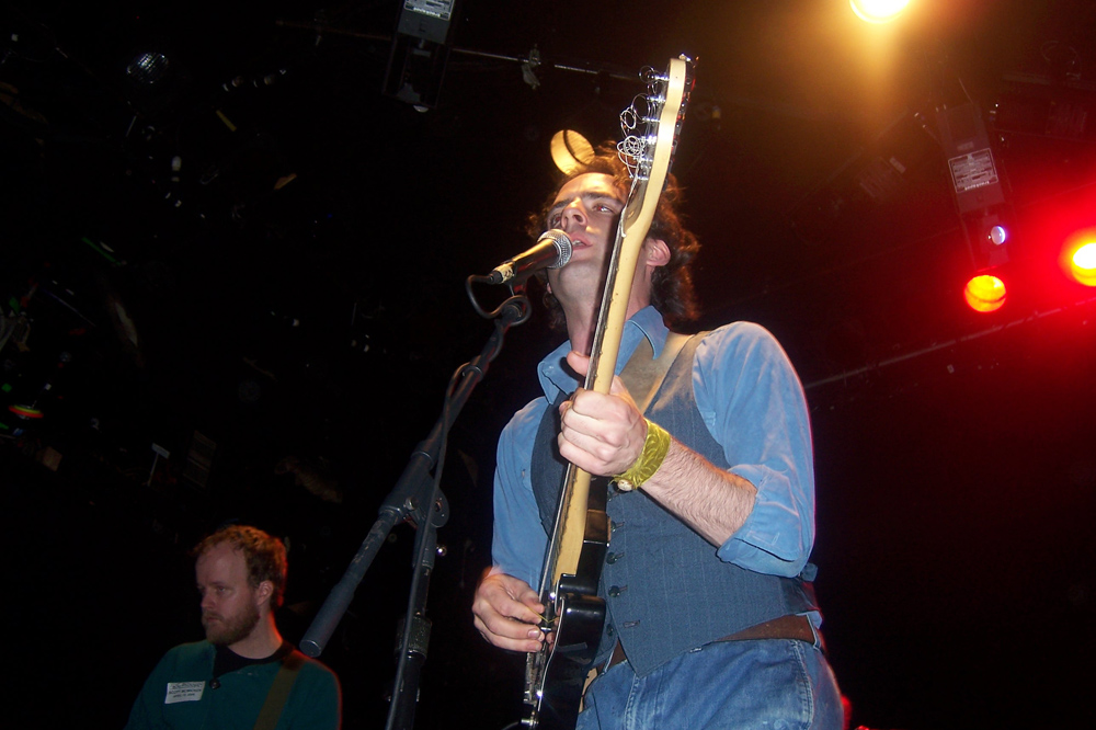 Clap Your Hands Say Yeah playing at the Bowery Ballroom, NYC. Pictured here is singer Alec Ounsworth.